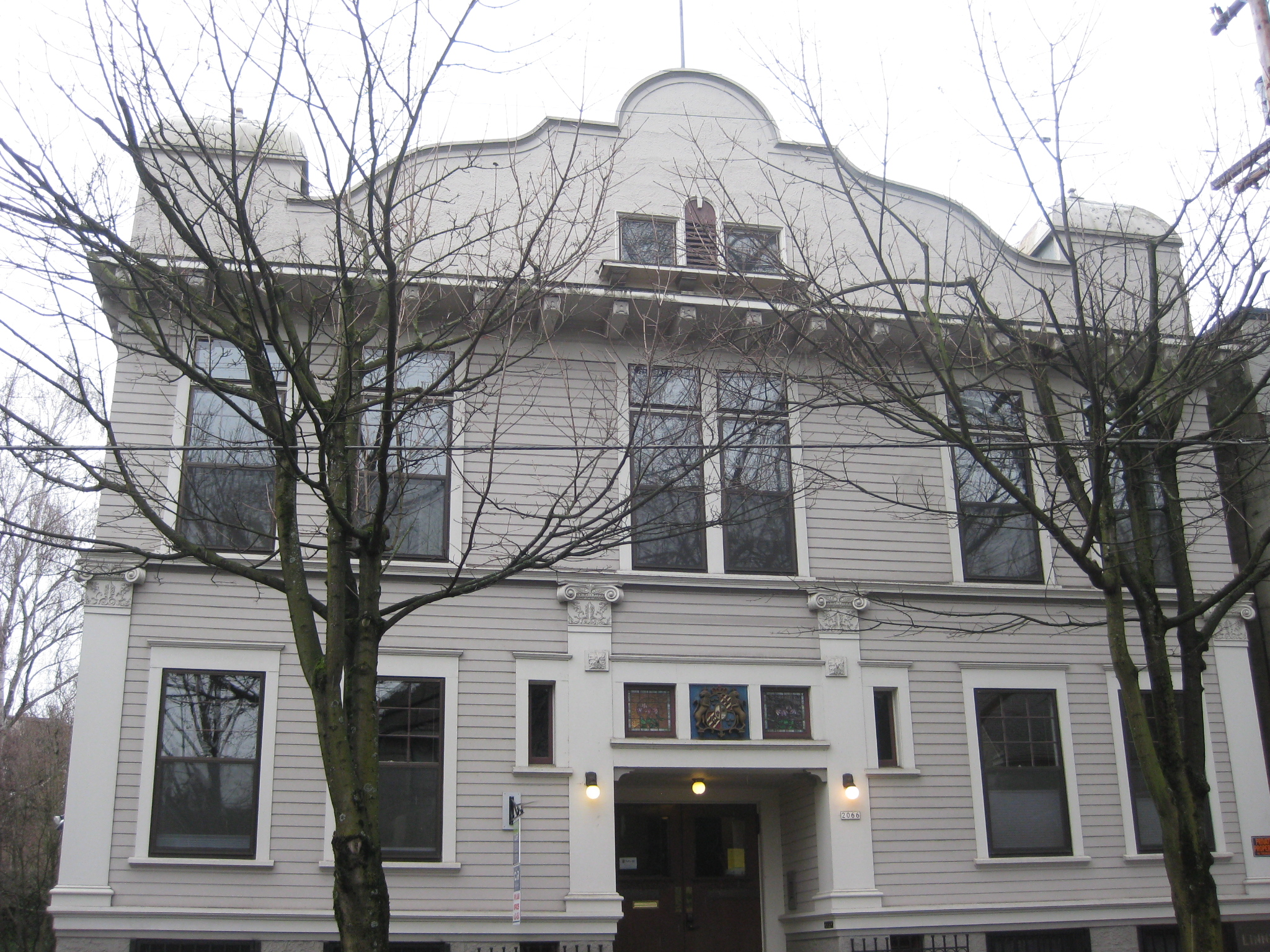 The historic Linnea Hall (built 1909) is located in 2066 NW Irving St. in Northwest District, Portland, Oregon. Listed on the National Register of Historic Places in Portland, categorized as in the 'Scandinavian Baroque Revival style.' It is a historic district contributing property within the NRHP-listed Alphabet Historic District of Northwest Portland.